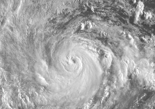 Hurricane Hernan photographed in visible light by GOES East Pacific Floater 1 at 1430Z on 9 Aug 2008 at category 3 strength